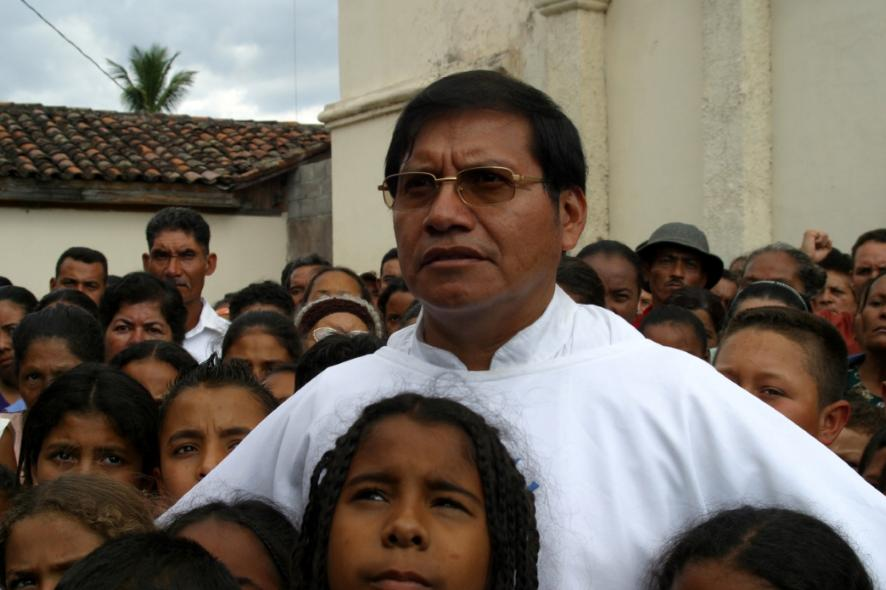 Priest Father Andres Tamayo